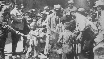 Hungarian children being fed by the invading Romanian troops (1919).